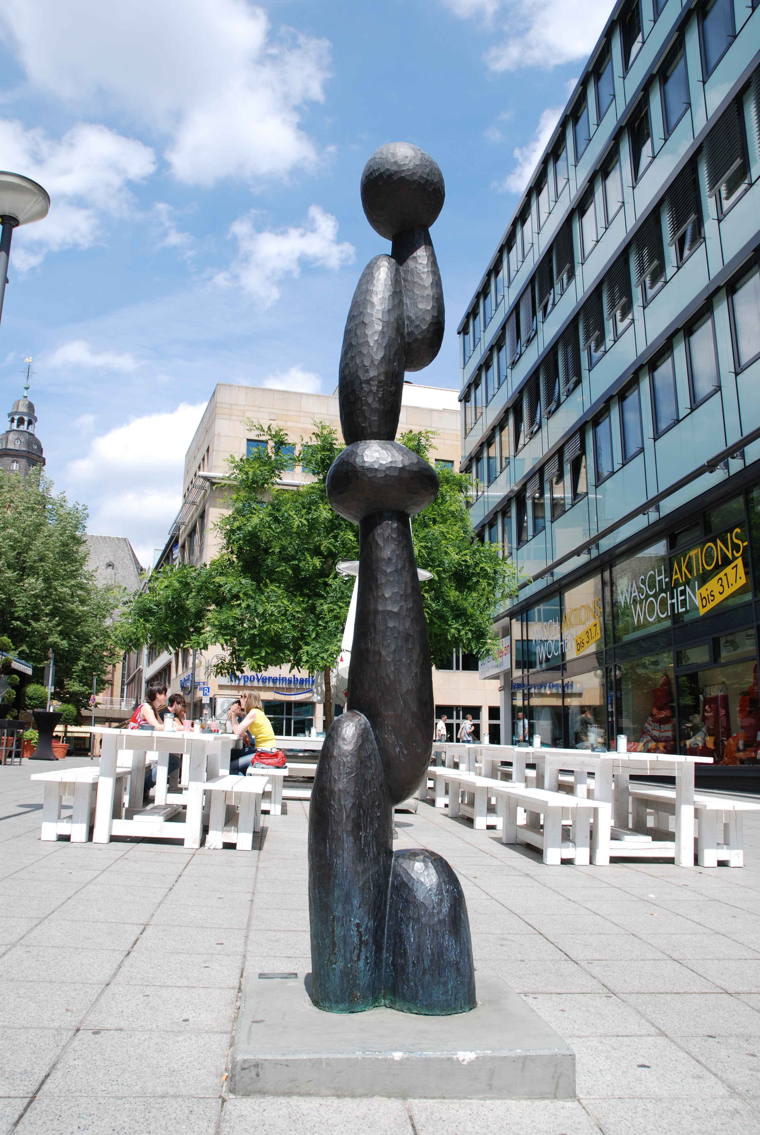 Hans Steinbrenner: Figur (1961). Cast-bronze. Site: Sandgasse, Frankfurt am Main, Germany